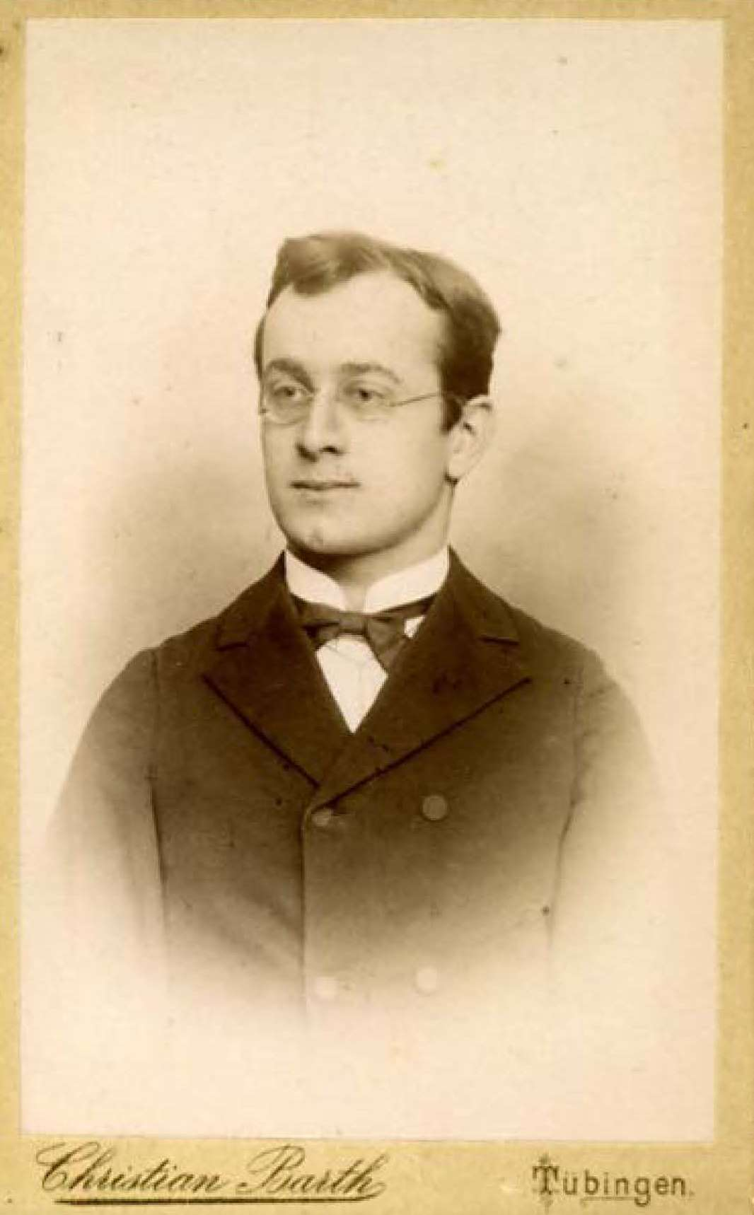 Heinrich Günter (1870–1951) as a student of theology and history at the university of Tübingen 1889–1893